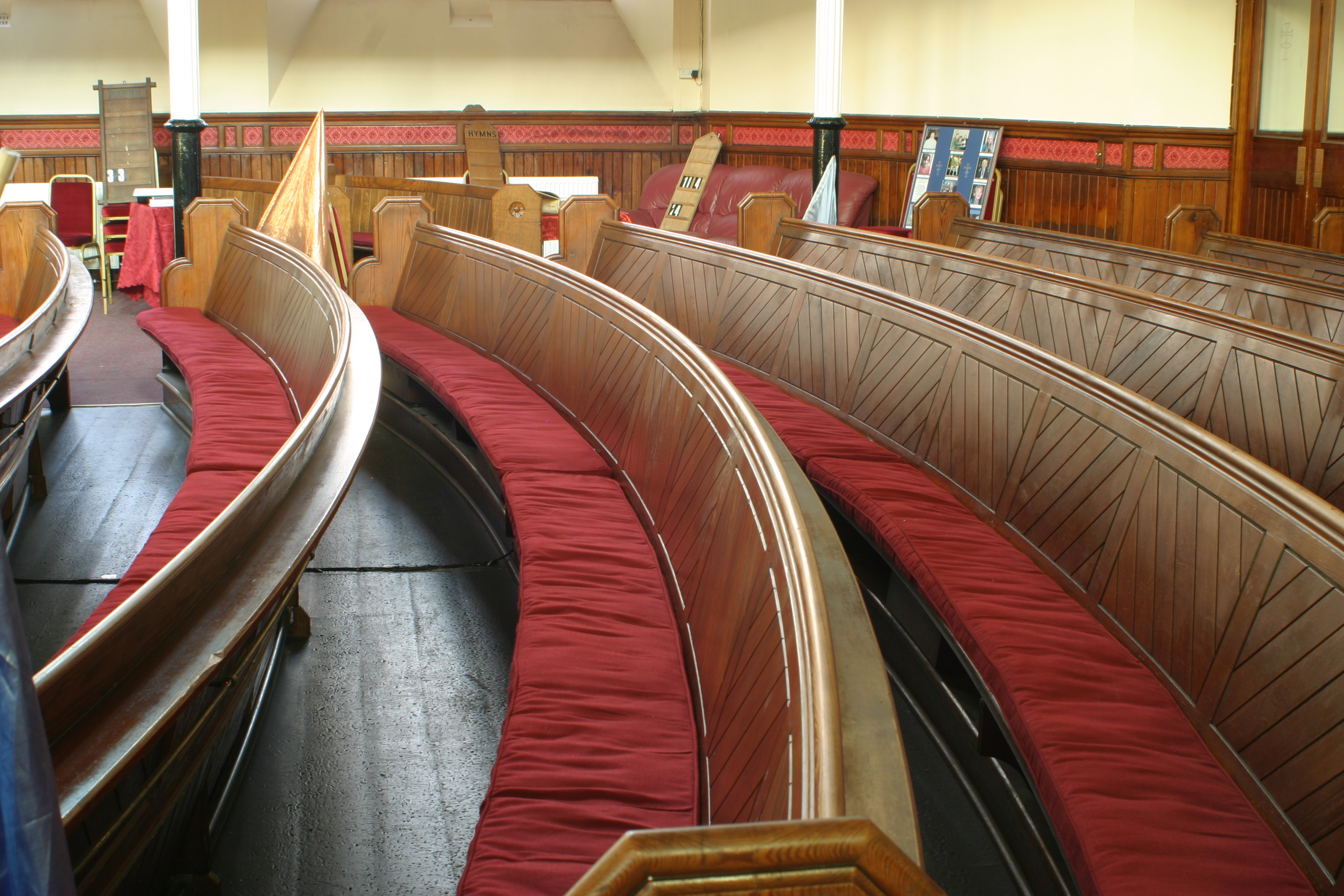 View of curved pews at Robertson Street Congregational Church 2019.